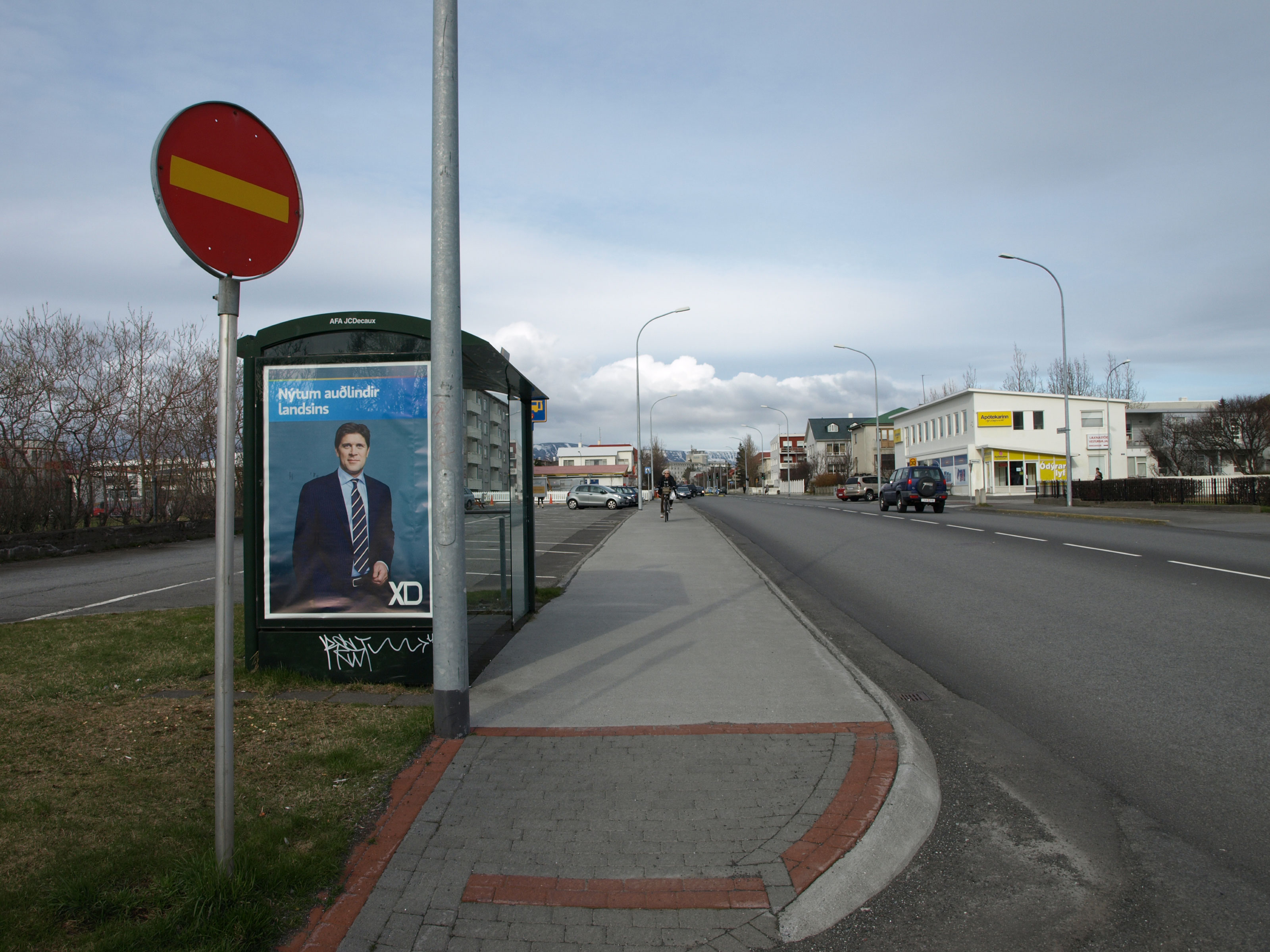 Street in Reykjavík, Iceland showing a bus stop carrying a political advertisement for the Independence Party on the day of parliamentary election.